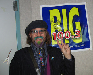 Mark Hudson, when he visited Washington, DC area "classic hits" radio station, BIG 100.3.